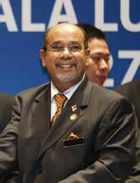 Syed Hamid Albar and Condoleezza Rice